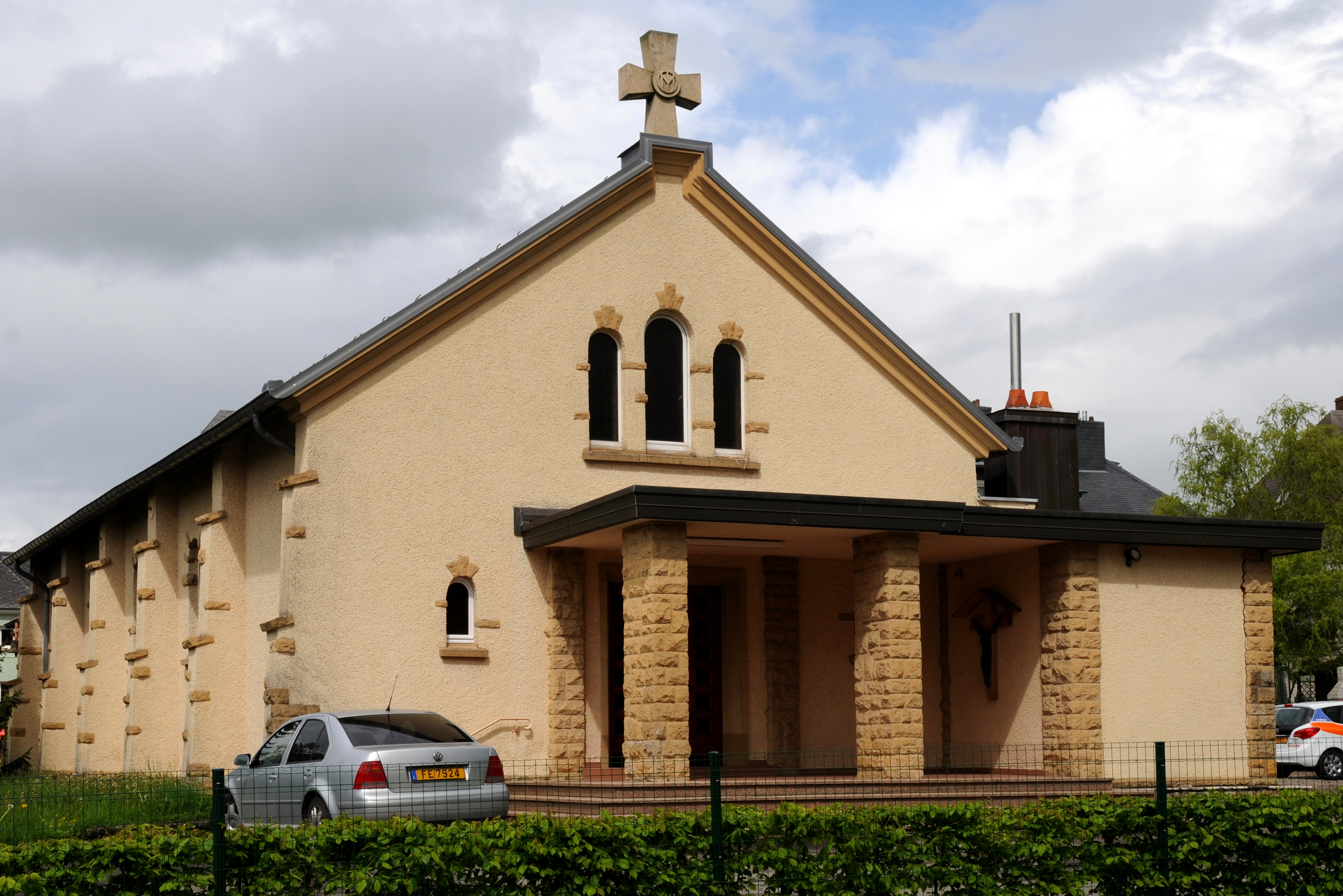 St. Joseph chapel in Burange . This photograph was taken with a Nikon D300. This raster graphics image was created with Picasa This raster graphics image was created with GIMP